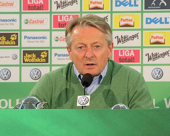 Lorenz-Günther Köstner, German football coach